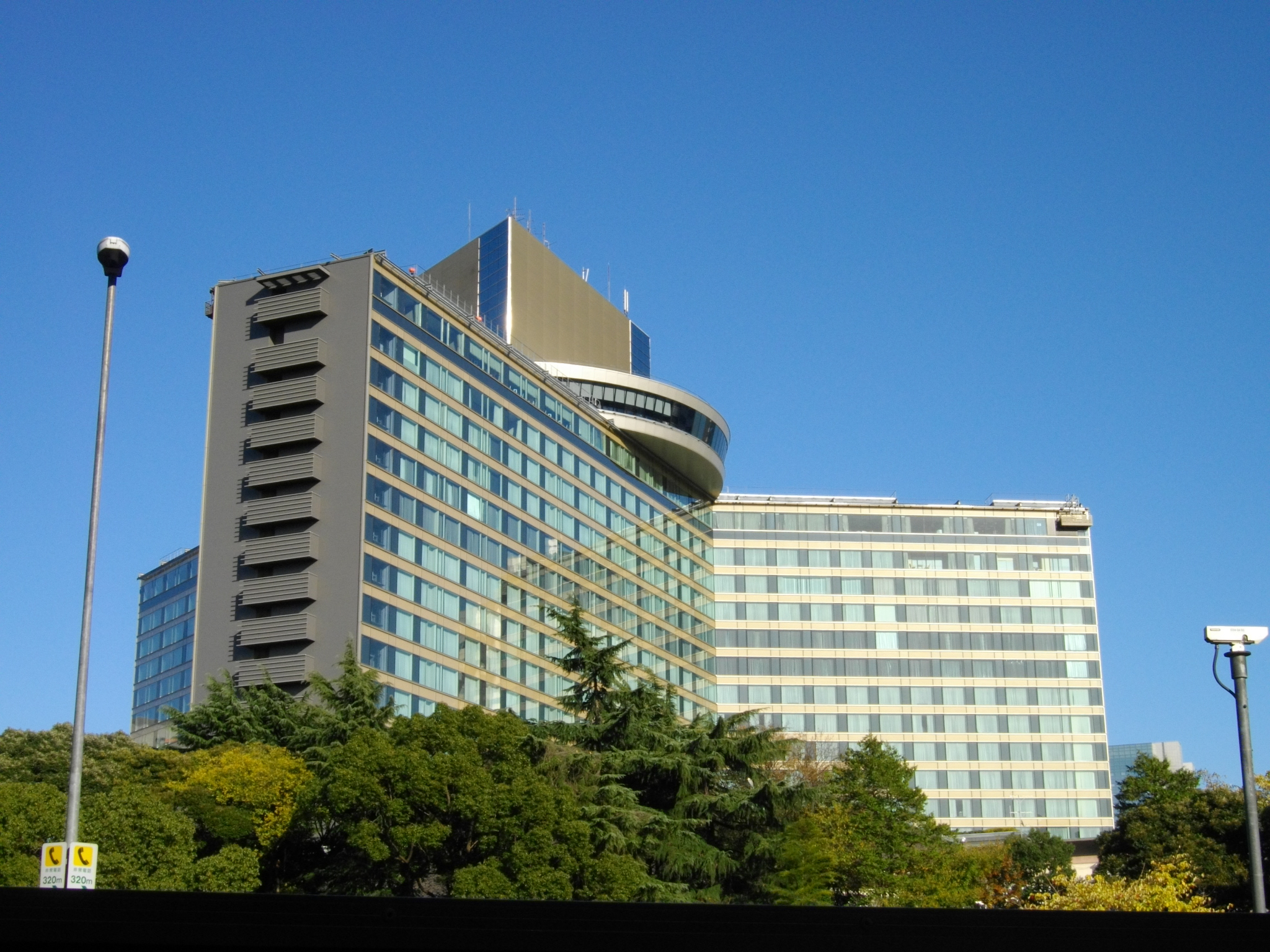 Hotel New Otani Tokyo The Main